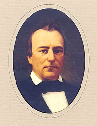 Francis Richard Lubbock, 9th Governor of the State of Texas.